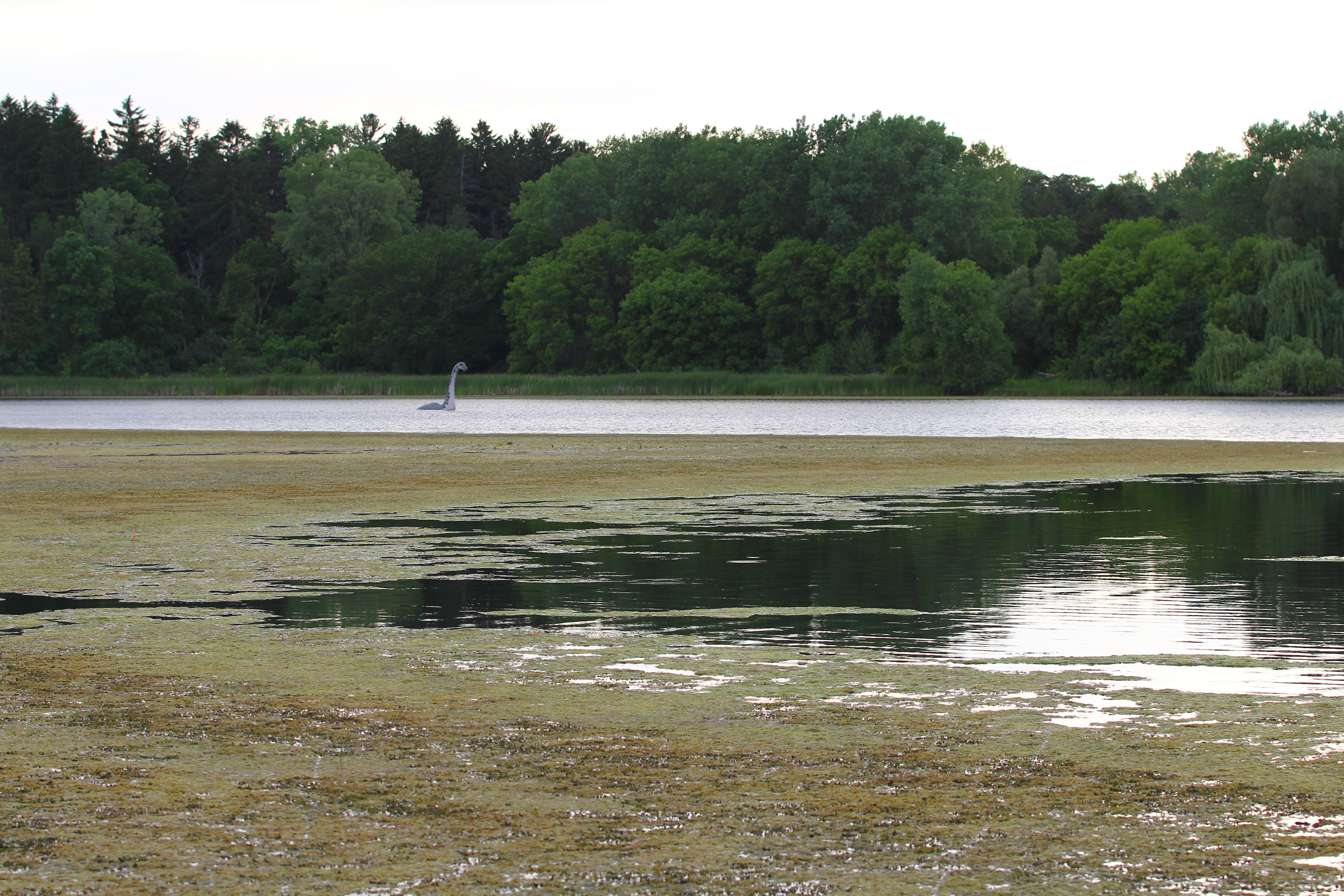 Minne, Minneapolis's version of the Loch Ness monster.